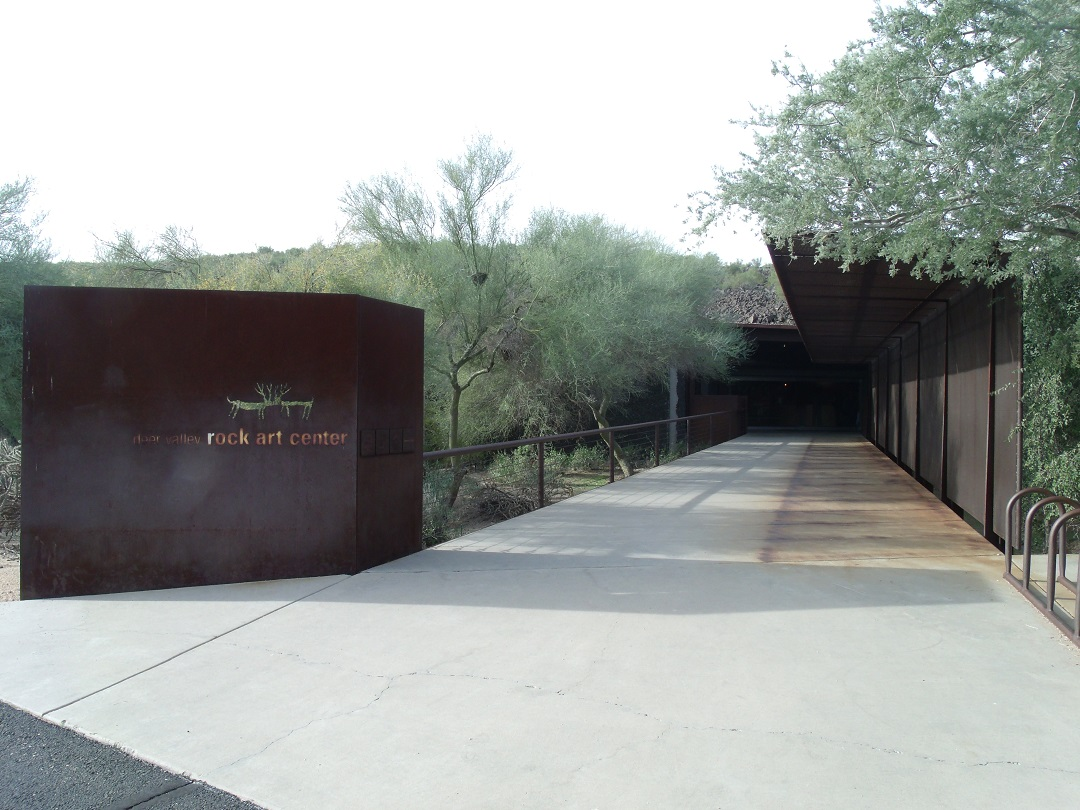 Entrance of the Deer Valley Rock Art Center Museum. Deer Valley Rock Art Center is located in North Phoenix at 3711 W.Deer Valley Road. The site was listed on the National Register of Historic Places on February 16, 1984 and on the Phoenix Points of Pride. National Register of Historic Places ref: 84000718